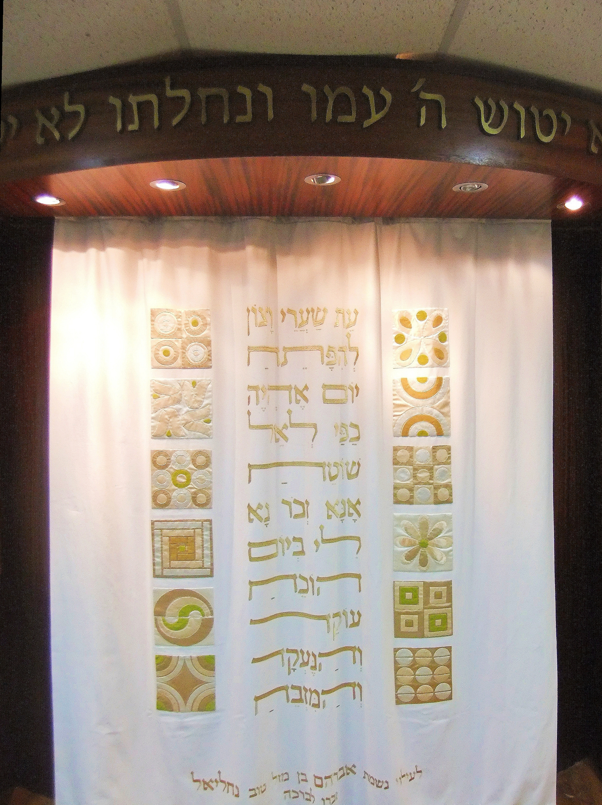 Parochet for Yamim Noraim in Mizmor L'Assaf Shul, made by Efod Art Embroidery, Nahariya +972-4-9828304